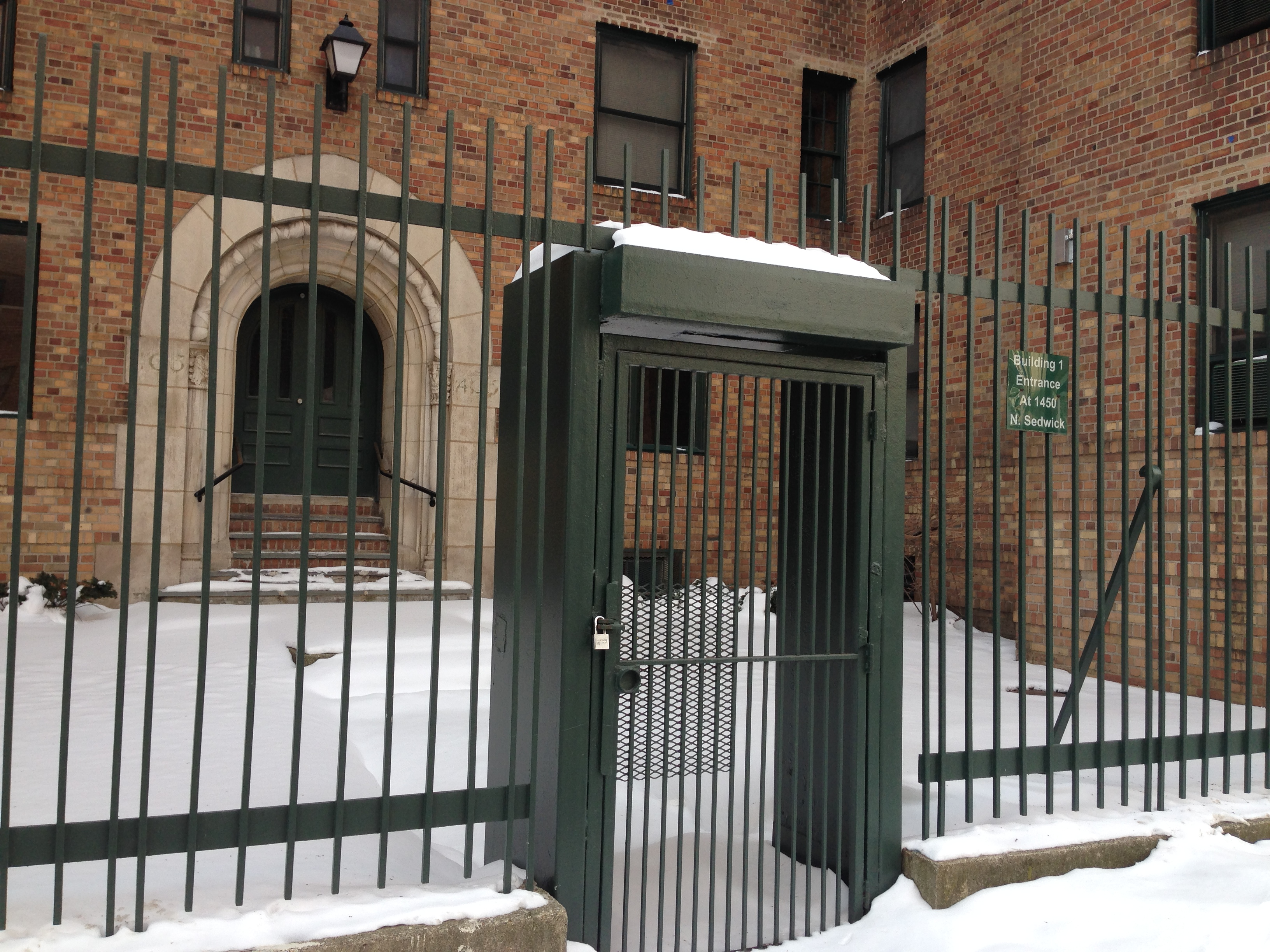 blocked entrance at Marshall field garden apartments, Chicago.